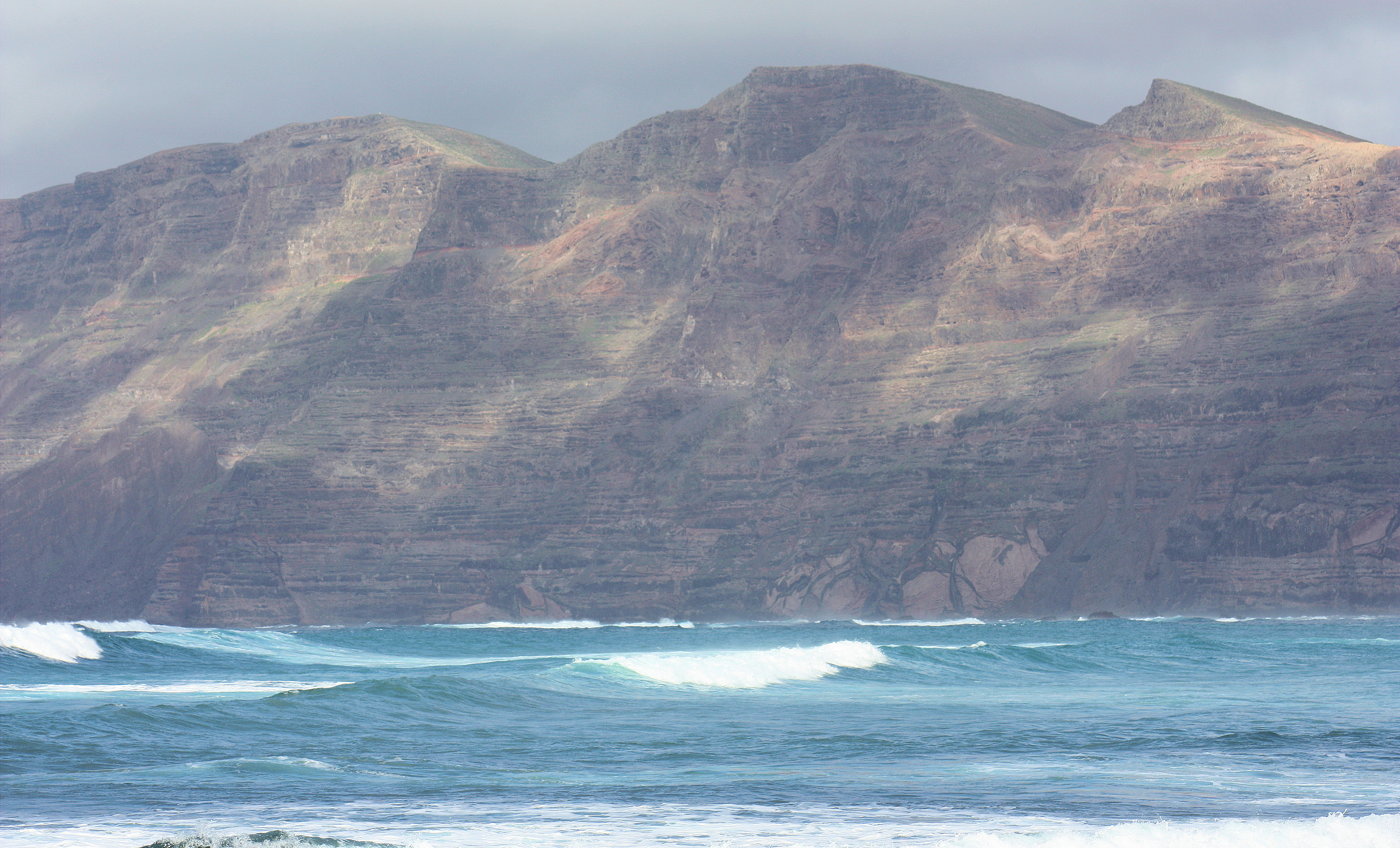 La Caleta de Famara (Teguise), view to the Risco de Famara